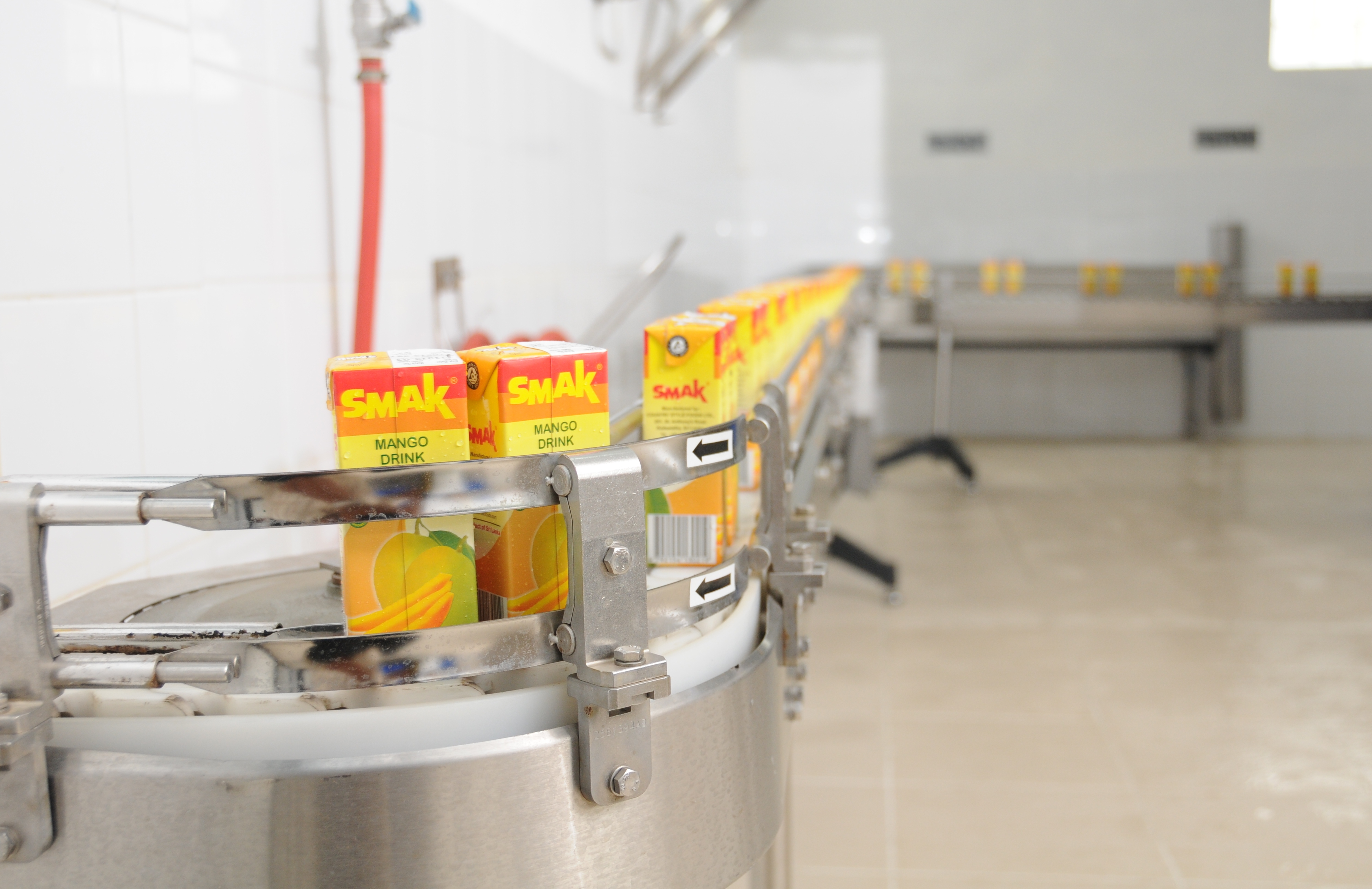 SMAK tetra pak in production